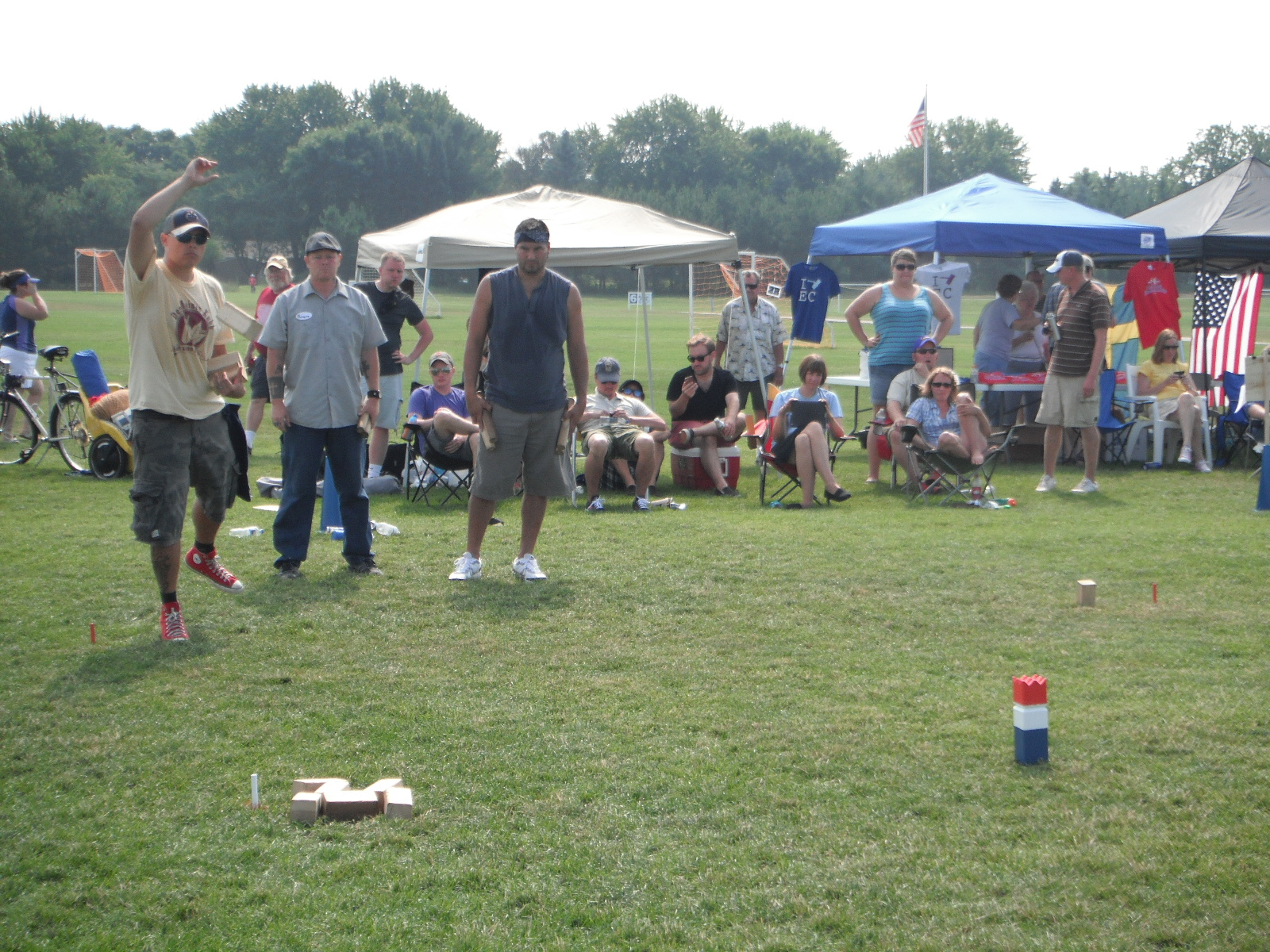 Josh Feathers from Team Knockerheads playing in kubb tournament